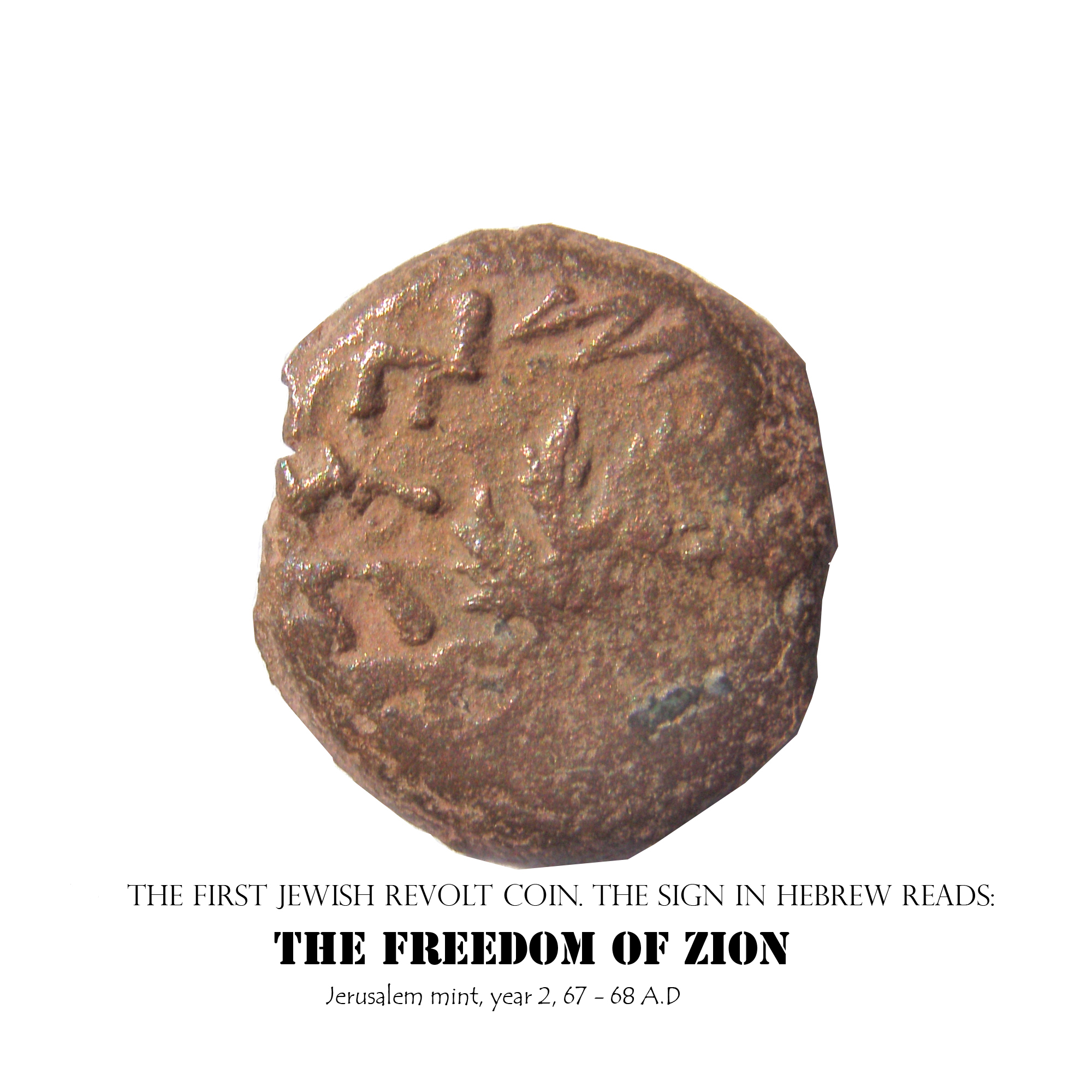 Bronze prutah, Hendin 1360 from The First Jewish Revolt, 66 - 70 A.D.. The sign in Hebrew language reads "the freedom of Zion", Jerusalem mint, year 2, 67 - 68 A.D